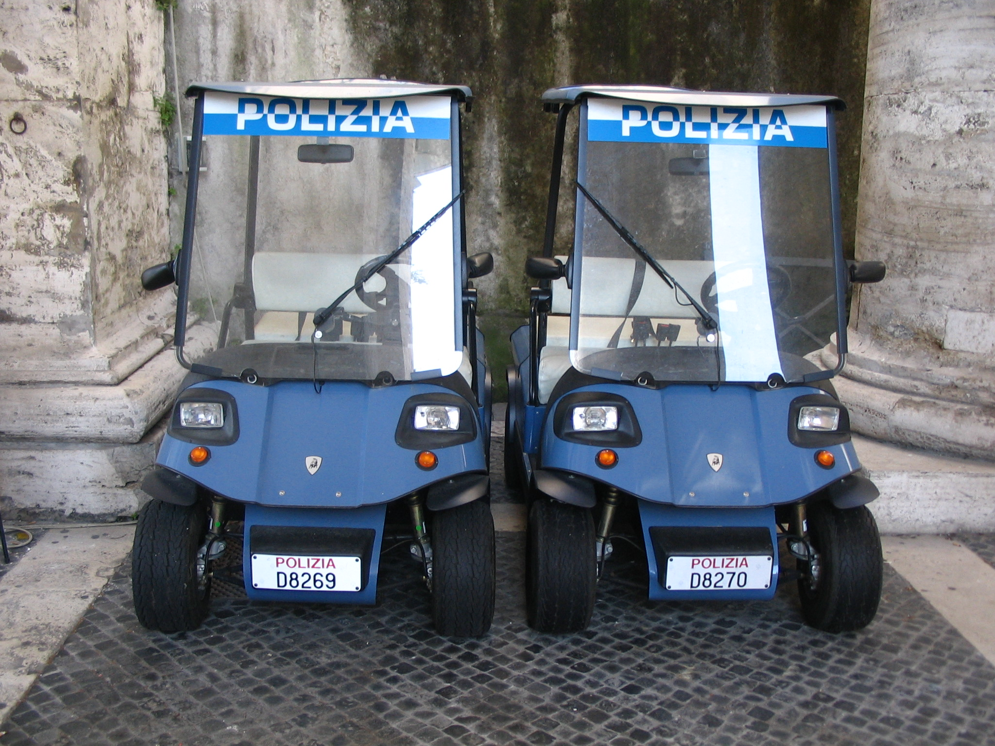 Tonino Lamborghini Utility Cart of the Inspectorate of Public Safety "Vatican" (Italian State Police) operating on Saint Peter's Square of Vatican City